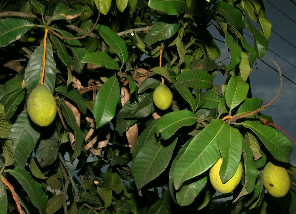 Mangifera odorata, leaves and fruits. Pandeglang, Banten (west Java), Indonesia